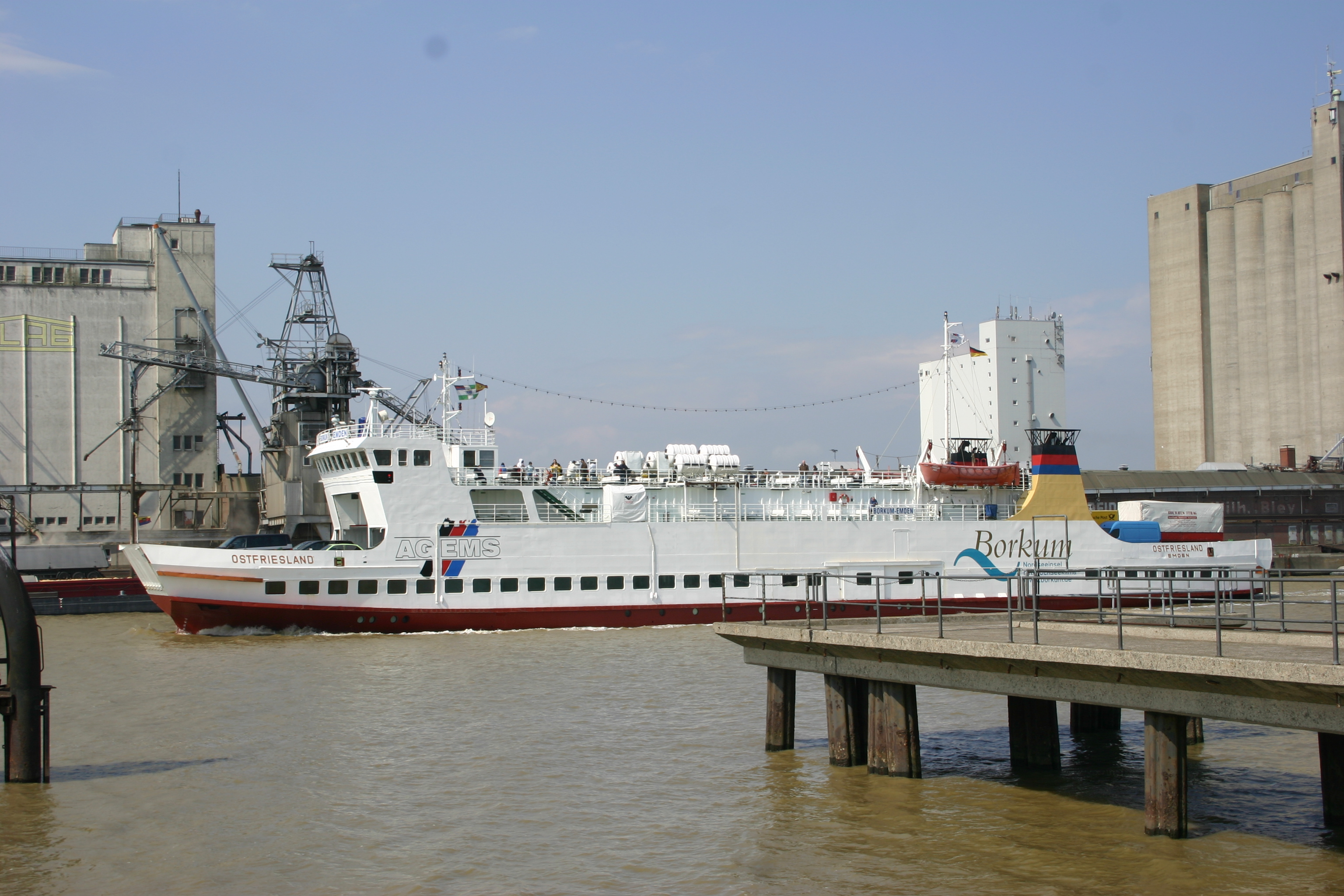 Ferry to Borkum (East Frisian Islands) in the port of Emden, Germany